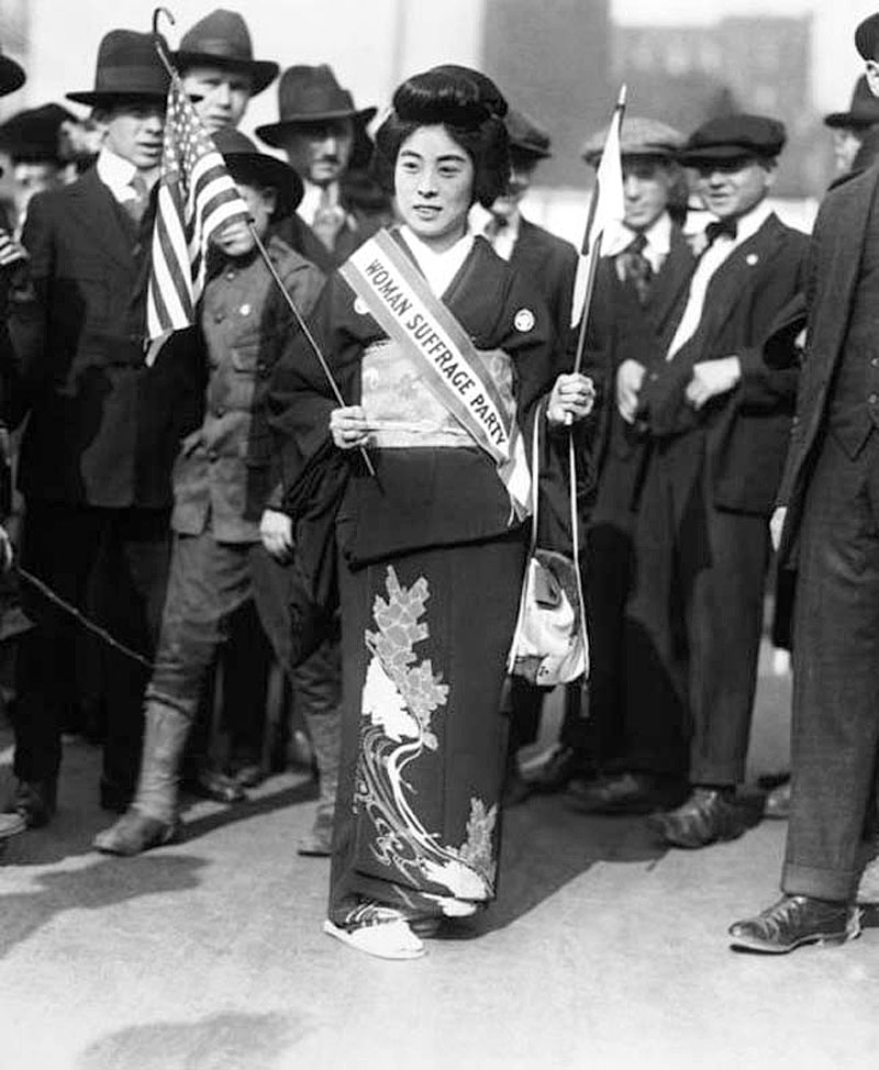 Komako Kimura, a prominent Japanese suffragist at a march in New York. October 23, 1917